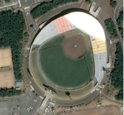 Komachi Stadium